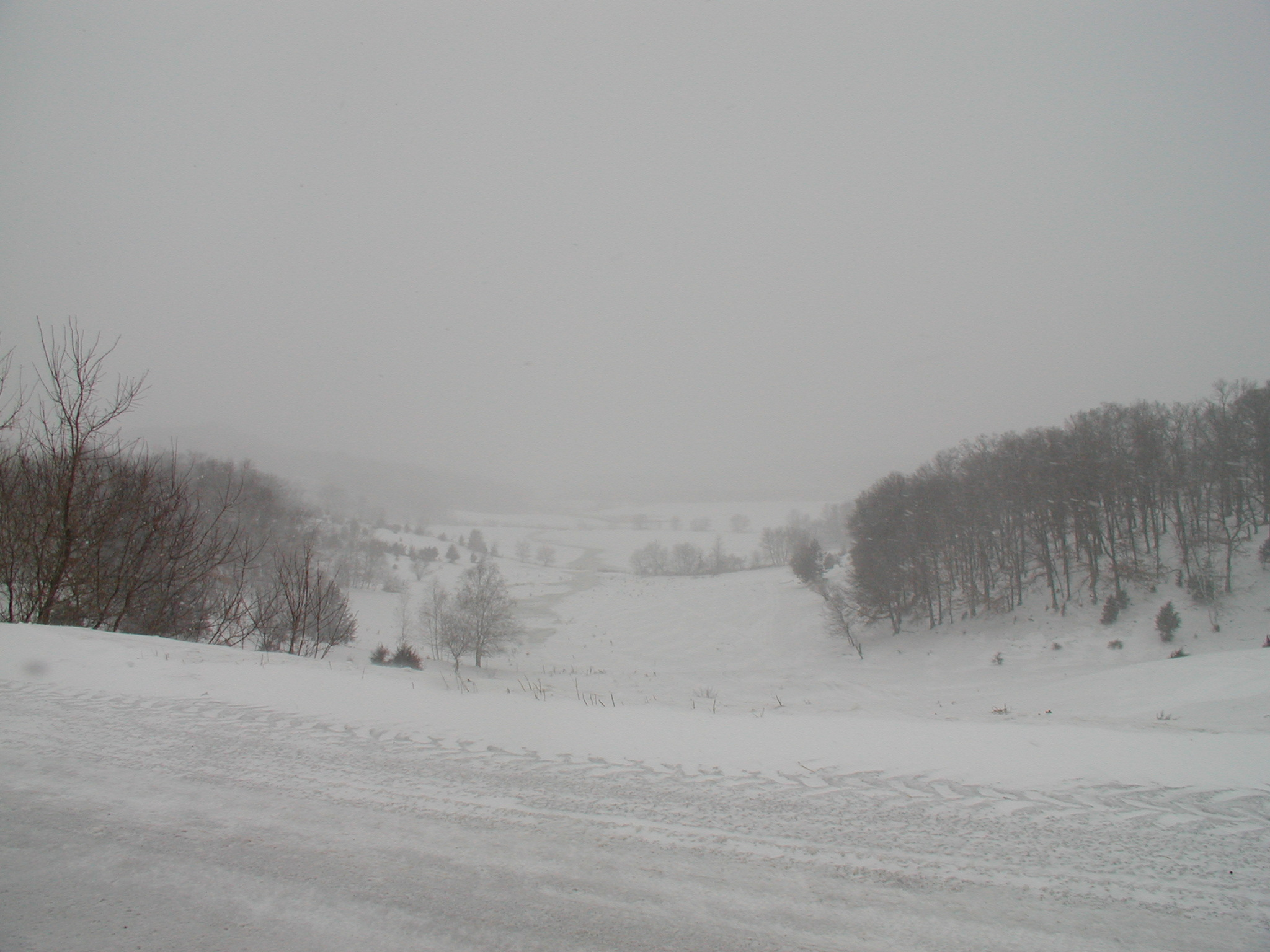 Eau Claire County in a snow storm.